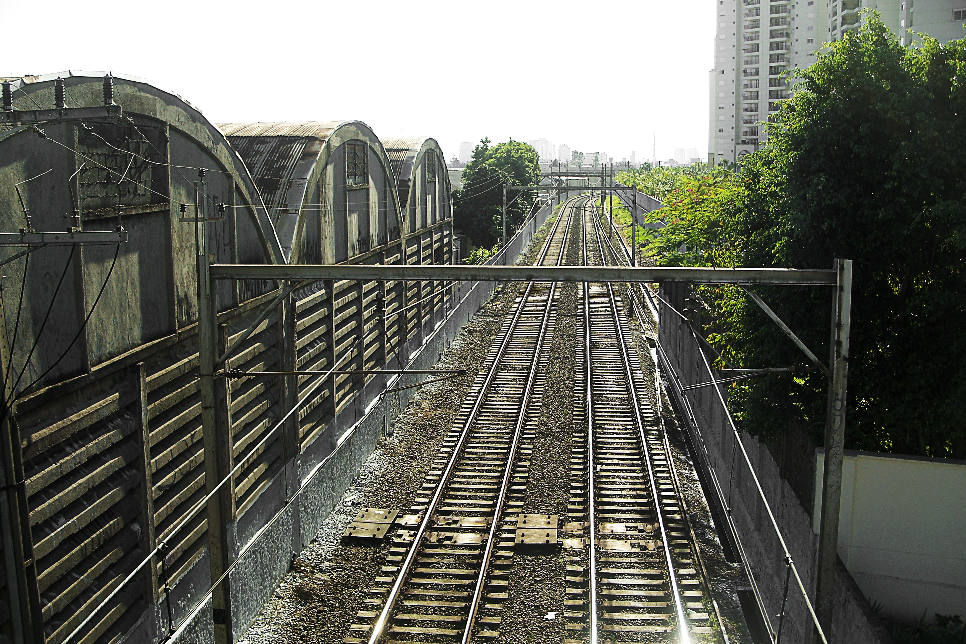 Tracks for Line 8 of CPTM in São Paulo, Brazil.